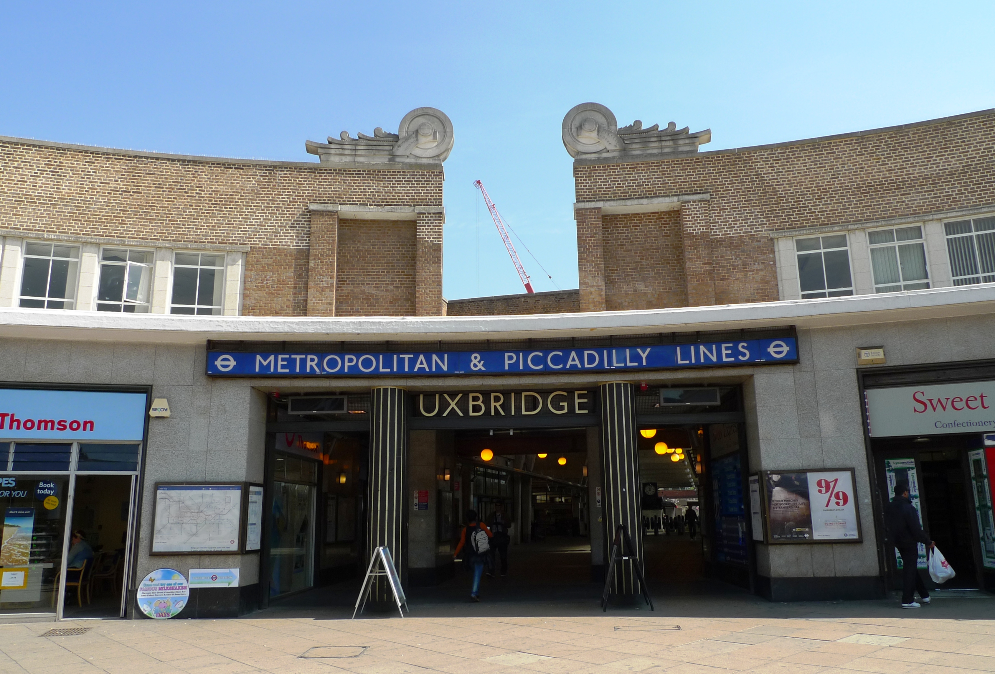 The western terminus for two underground lines. The front entrance, on a busy shopping street. (View of rear entrance.) Line(s) and Previous/Next Stations: [Terminus] Hillingdon [Terminus] Hillingdon Links: Randomness Guide to London Wikipedia